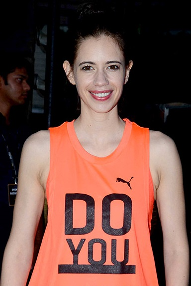 Kalki Koechlin in the ‘Abdominal Plank Position’ for 60sec